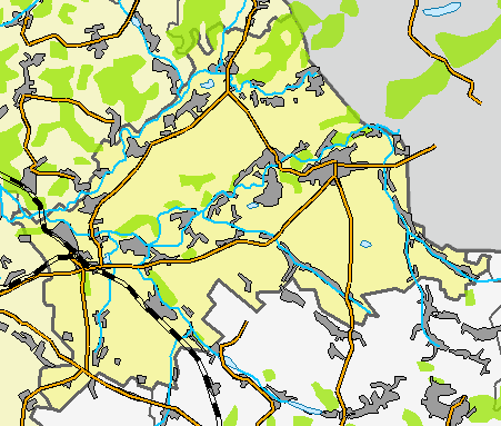 Map of Velyka Pysarivka Raion, Sumy oblast, Ukraine